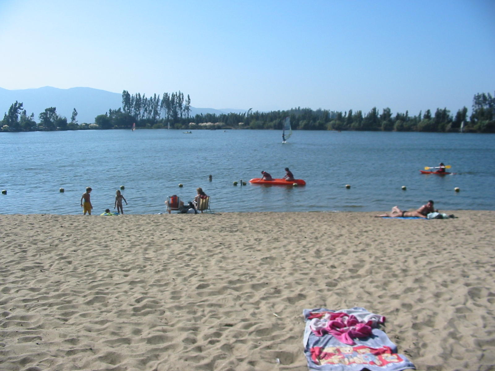 Laguna Esmeralda, nice place to widsurf and kajak, close to SCL